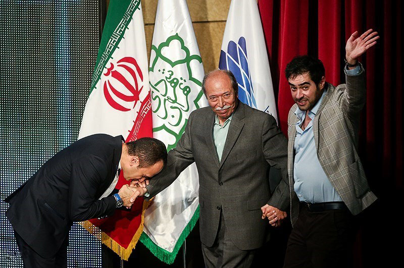 The closing ceremony of Shahrzad series in Tehran’s Milad Tower the series’ cast as well as the country’s artistic and political figures in attendance.